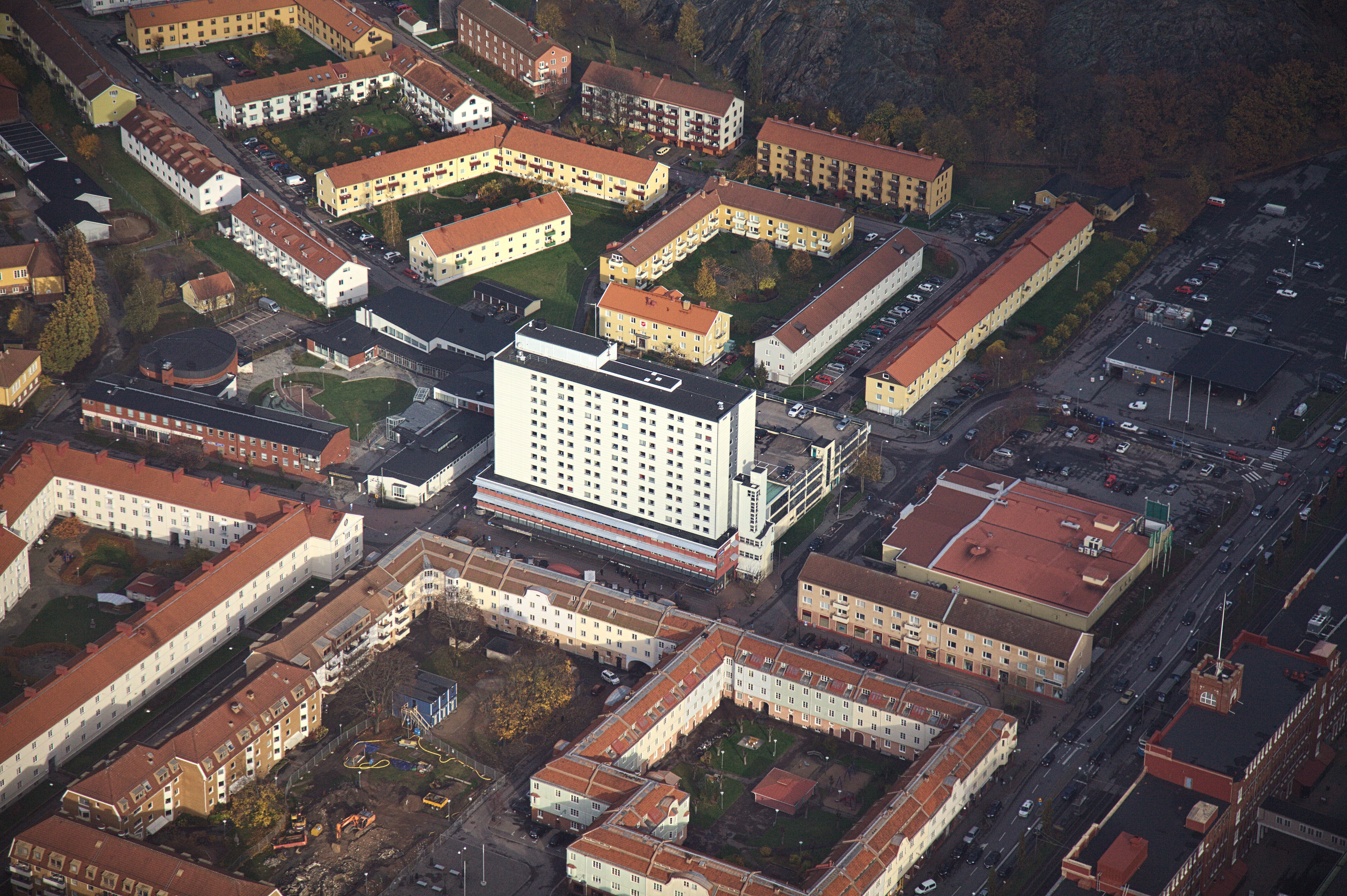 Photo taken on a helicopter over Gothenburg. On photo is Gamlestaden with Artillerigatan bottom right, Brahegatan in center and Skaragatan up left.